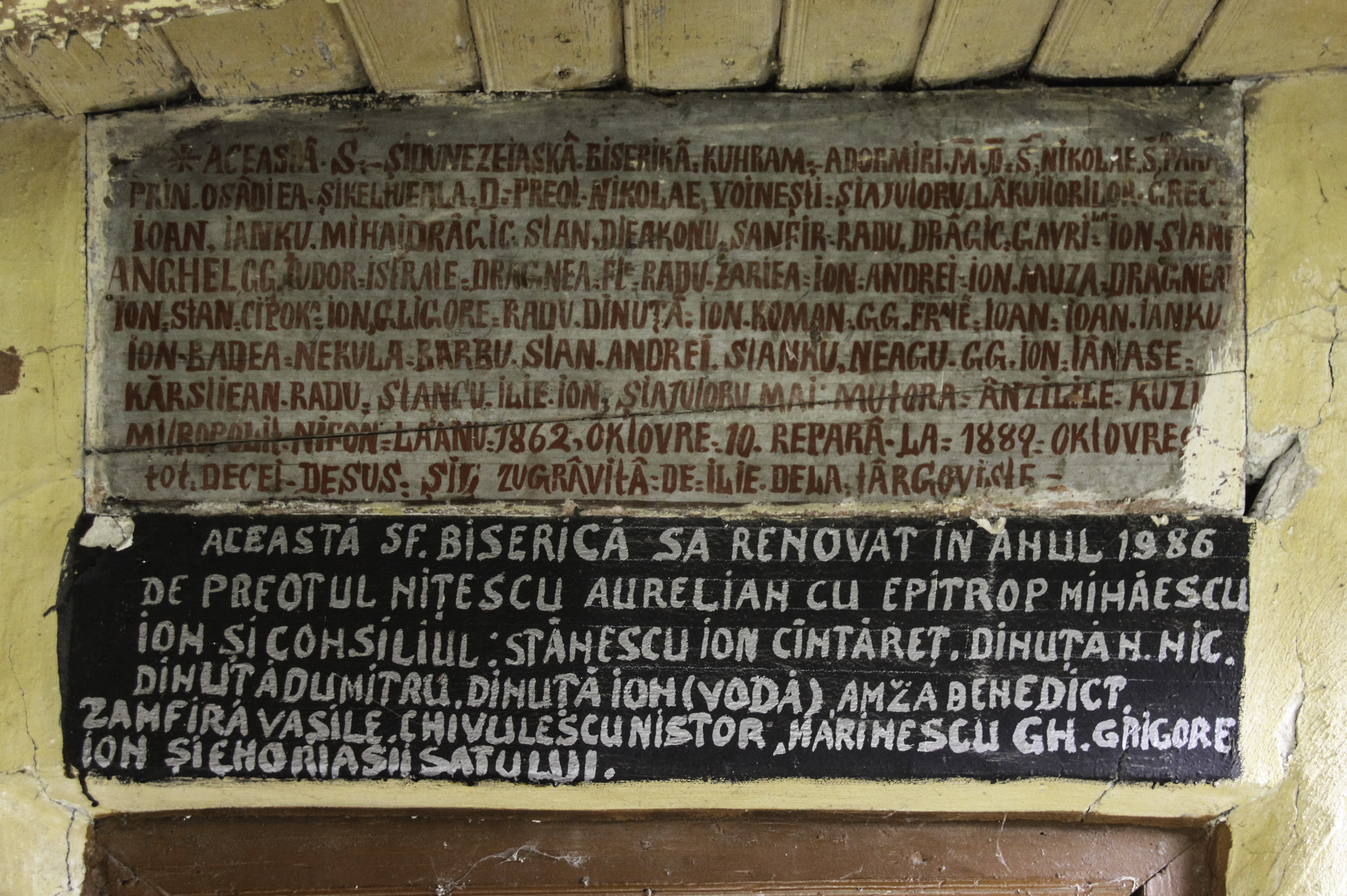 Moșteni-Greci, Argeș, Romania: the wooden church.